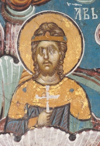 Detail of fresco Loza Nemanjića, Radoslav, Visoki Dečani, Serbia.